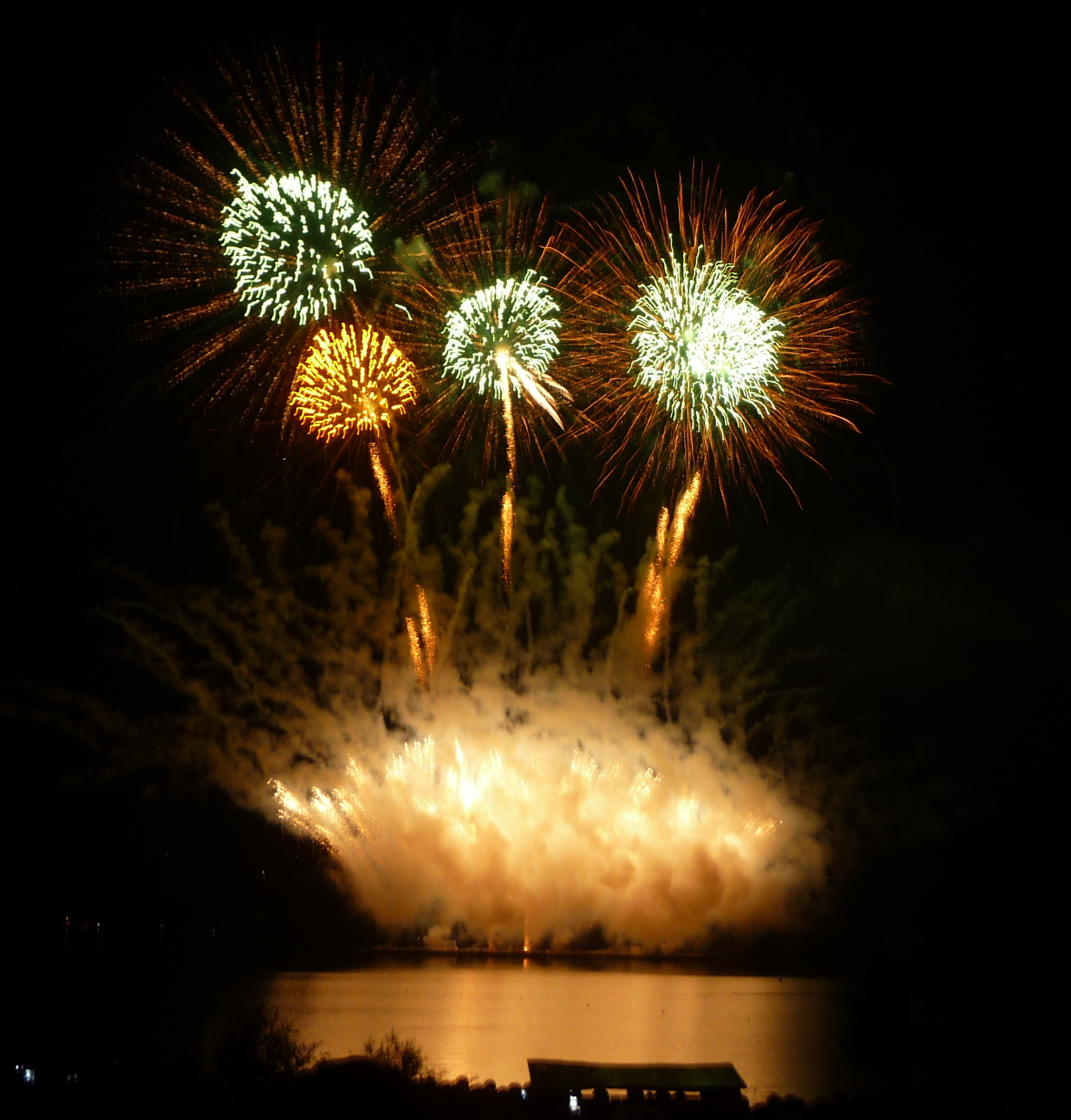 Fireworks competition from company Panda Fireworks China with theme "Kung-fu", Brno Dam, Brno